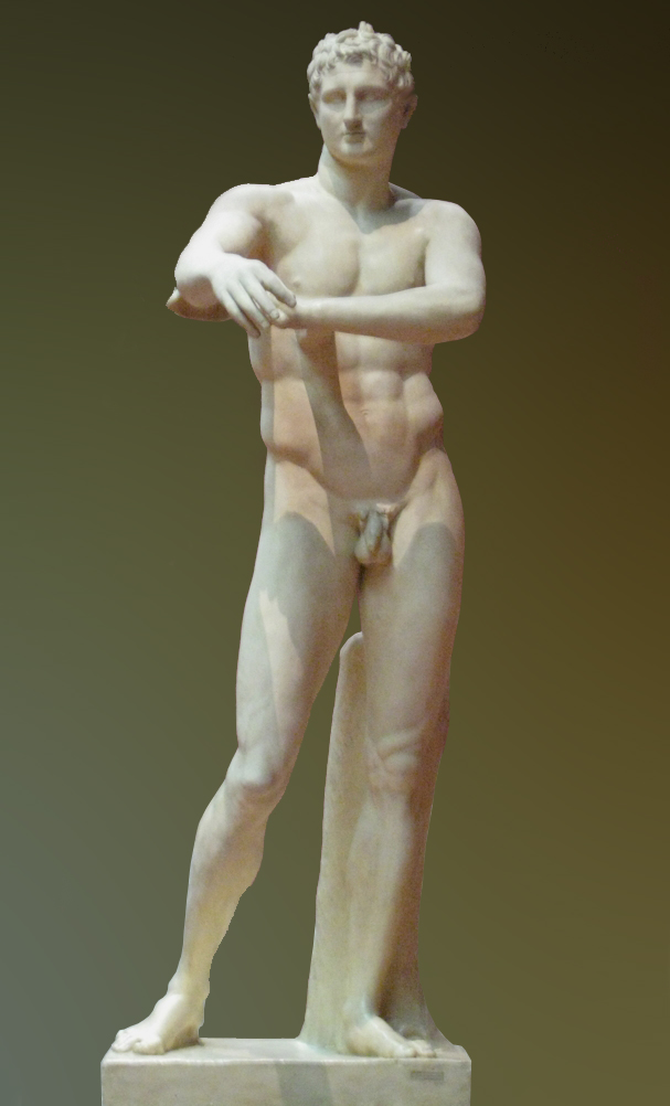 Apoxyomenos, after Lysippos. plaster cast in Pushkin Museum, Moscow